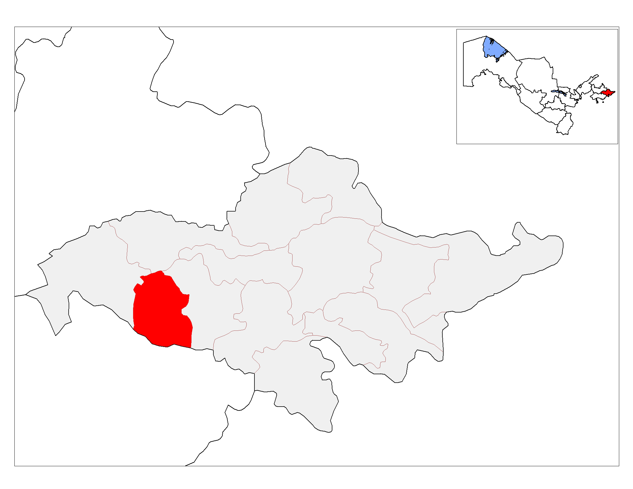 Location of Bo’z District in Andijon Province